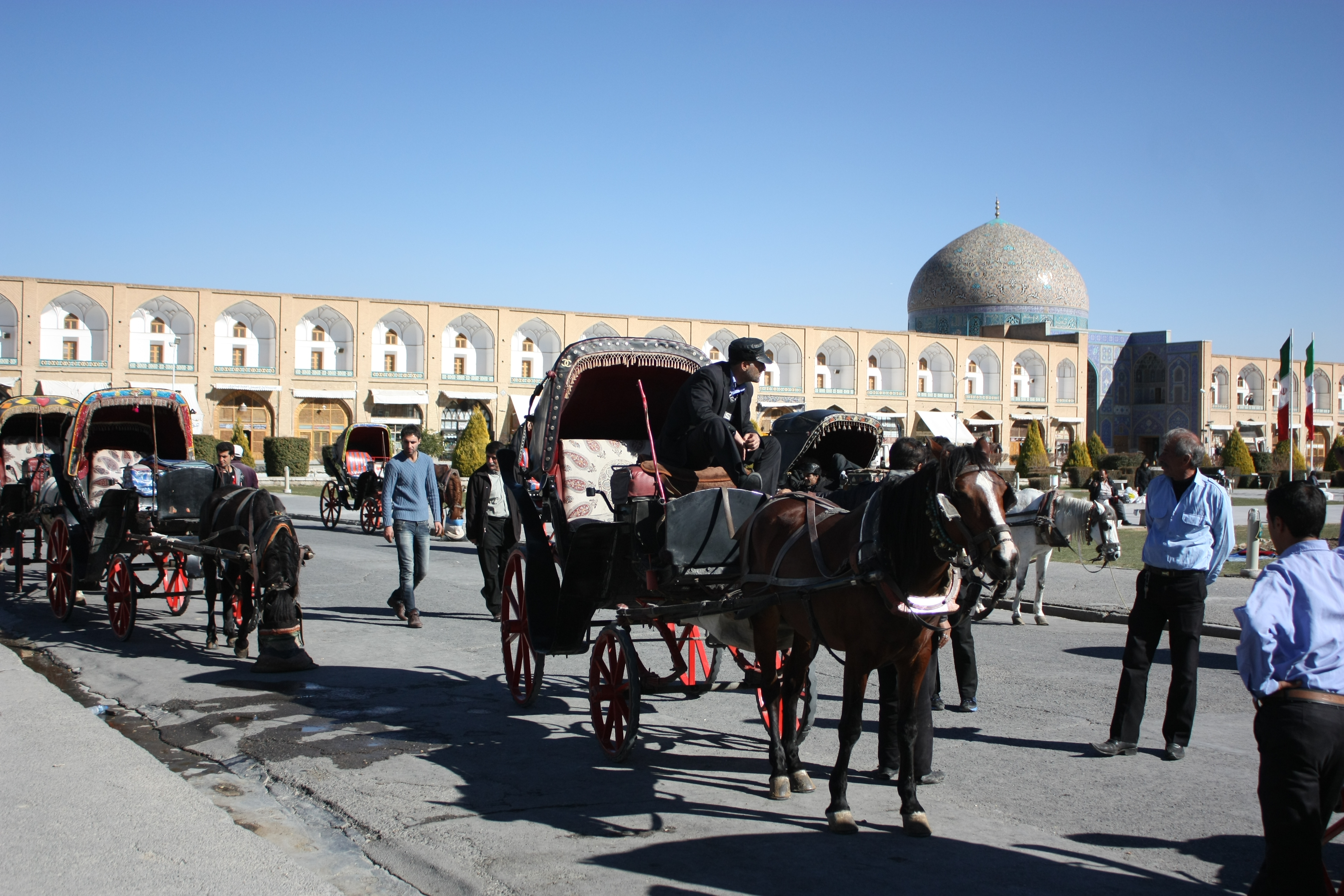 Naqsh-e Jahan Square